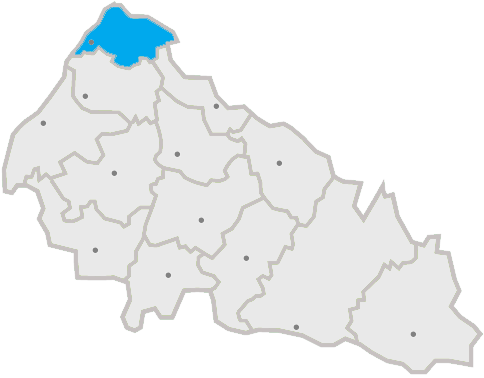 Ukraine, Oblast Transcarpathia, Rajon Velykyi Bereznyi highlighted